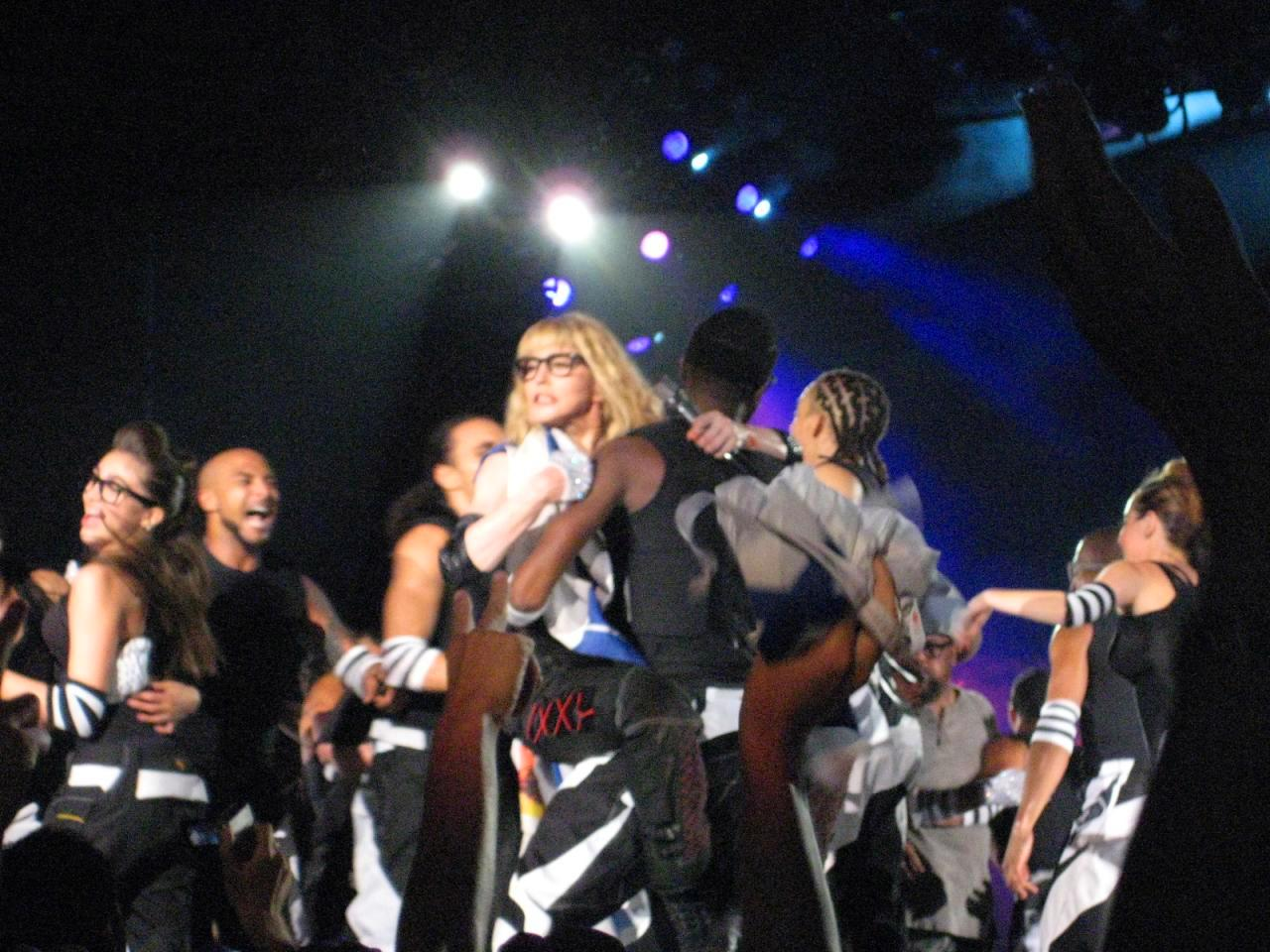 Madonna performing "Give It 2 Me" on the last date of the 2009 Sticky & Sweet Tour. On the right of the image, is her daughter Lourdes, wearing the similar dress and black glasses.